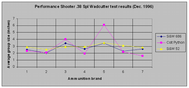 Graph generated by me in Excel from Performance Shooter .38 Spl wadcutter test results, Dec. 1996. Data may be found at